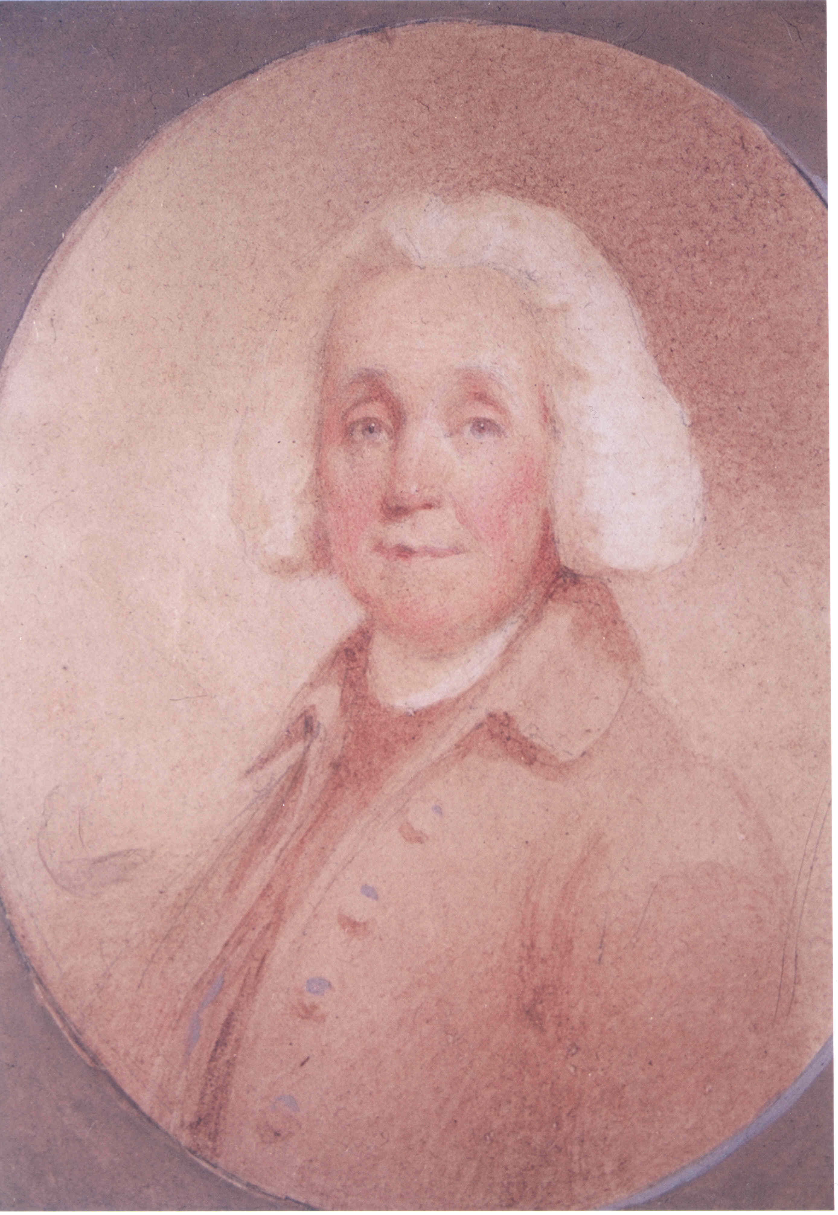 Portrait of William Foster (1744-1797), Lord Bishop of Clogher